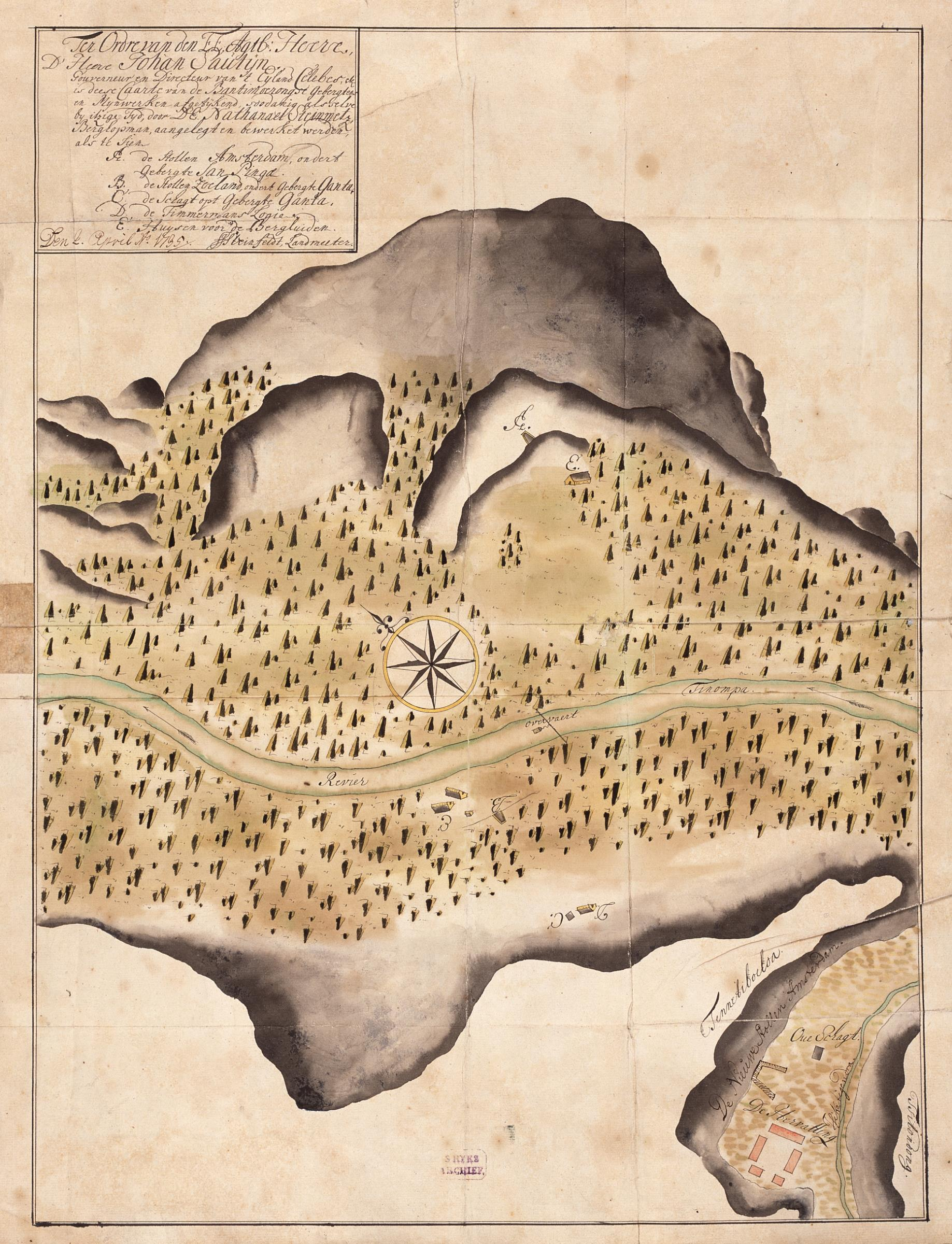 Title in the Leupe catalogue (NA): Kaart van de Bantimoerangse gebergten en mynwerken op Celebes. Notes on reverse: Kaart van de Bantimoerangse gebergten en mynwerken op Makasser. Behoort by de overgekomen Brieven en papieren van Batavia 1736, 3 deel / 1369 [folio number in the volume ?] / No. 5 [serial number of the item in the volume ?] / 652 e. Key: A-E The Bantimoerang range are limestone mountains